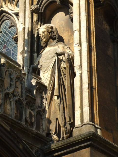 The Cathedral Church of the Blessed Virgin Mary, Lincoln Statue on the east of the south wall.